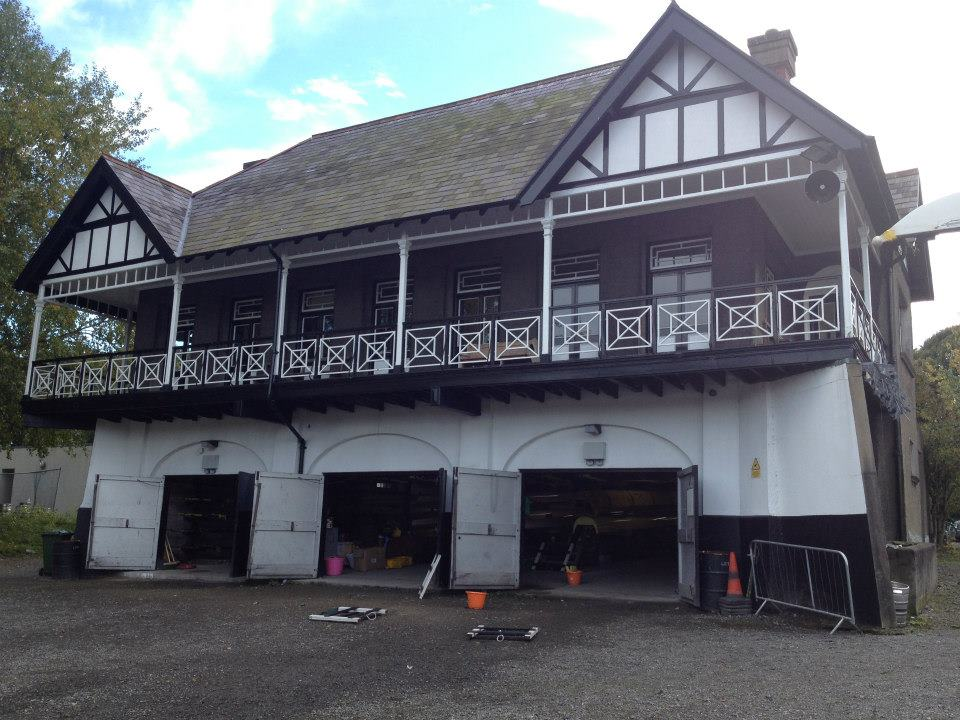 DULBC Boatbouse in Islandbridge, Dublin